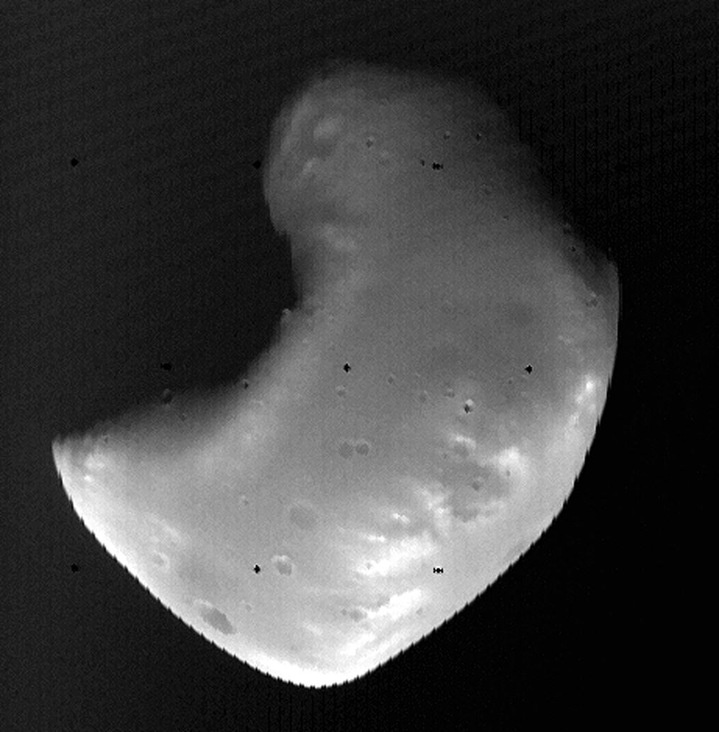 Viking 2 Orbiter image of the Martian satellite Deimos taken from 1400 km. Deimos appears smooth, but higher resolution images taken during closer approaches show the surface is covered with craters, but many of these have been partially buried or subdued by regolith. Deimos is about 14 km from top to bottom in this image.